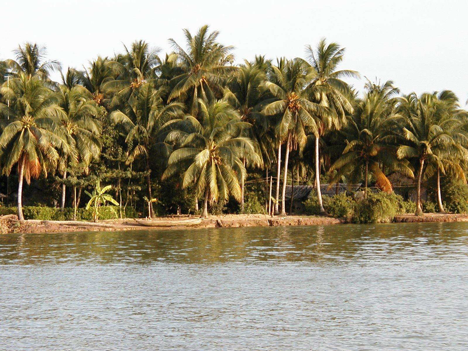 Coconut on the Mekong banks, Ben Tre province, Vietnam